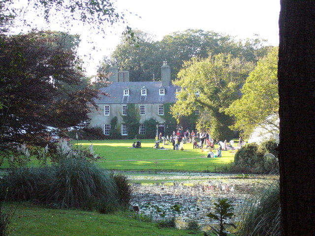 Carreglwyd House, Llanfaethlu Built by William Griffith who was Master of the Rolls to King Charles 1st. It was completed in the 1630s. Recently it was featured in the BBC programme "Great Houses"